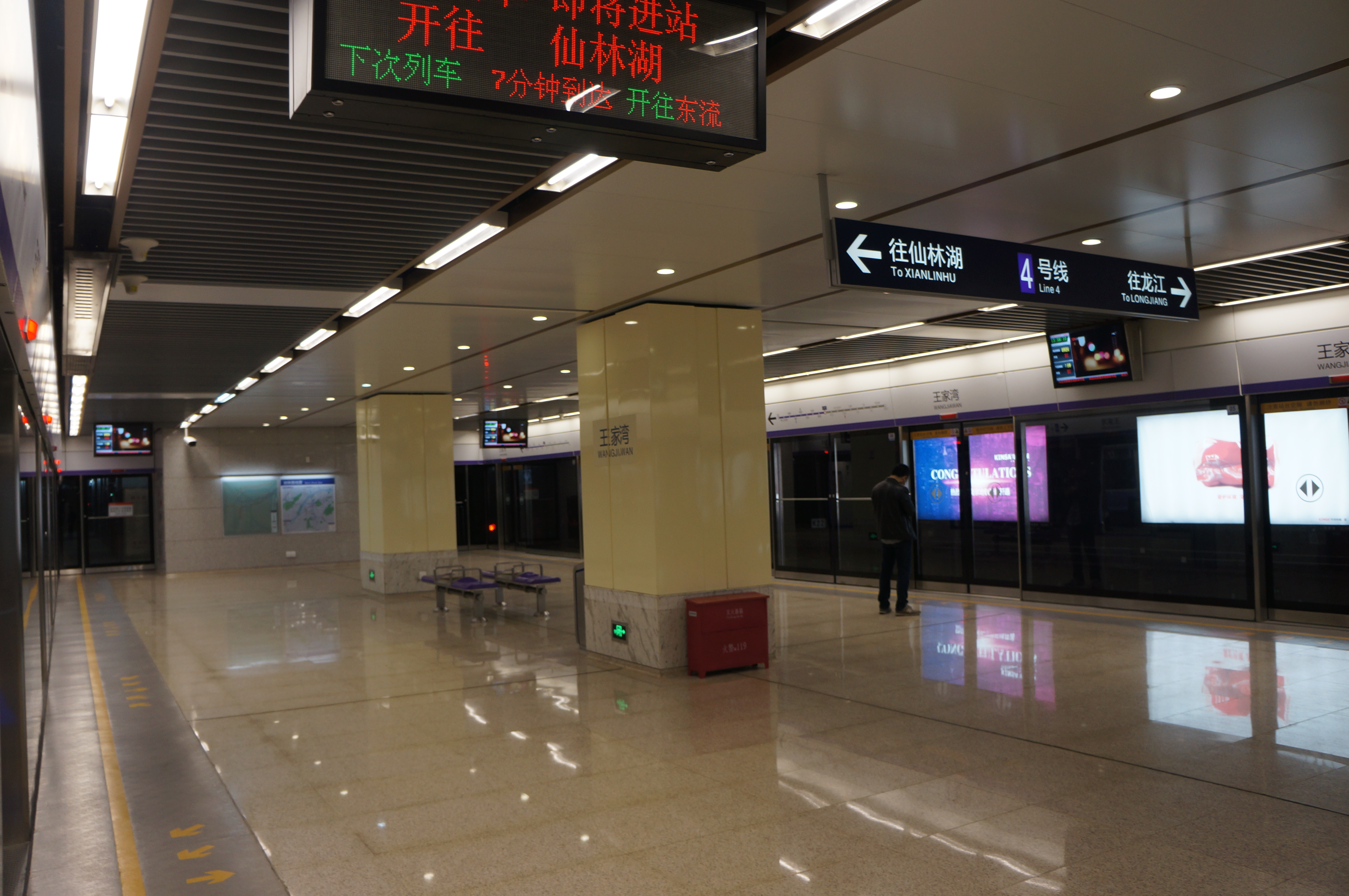 201704 Wangjiawan Station